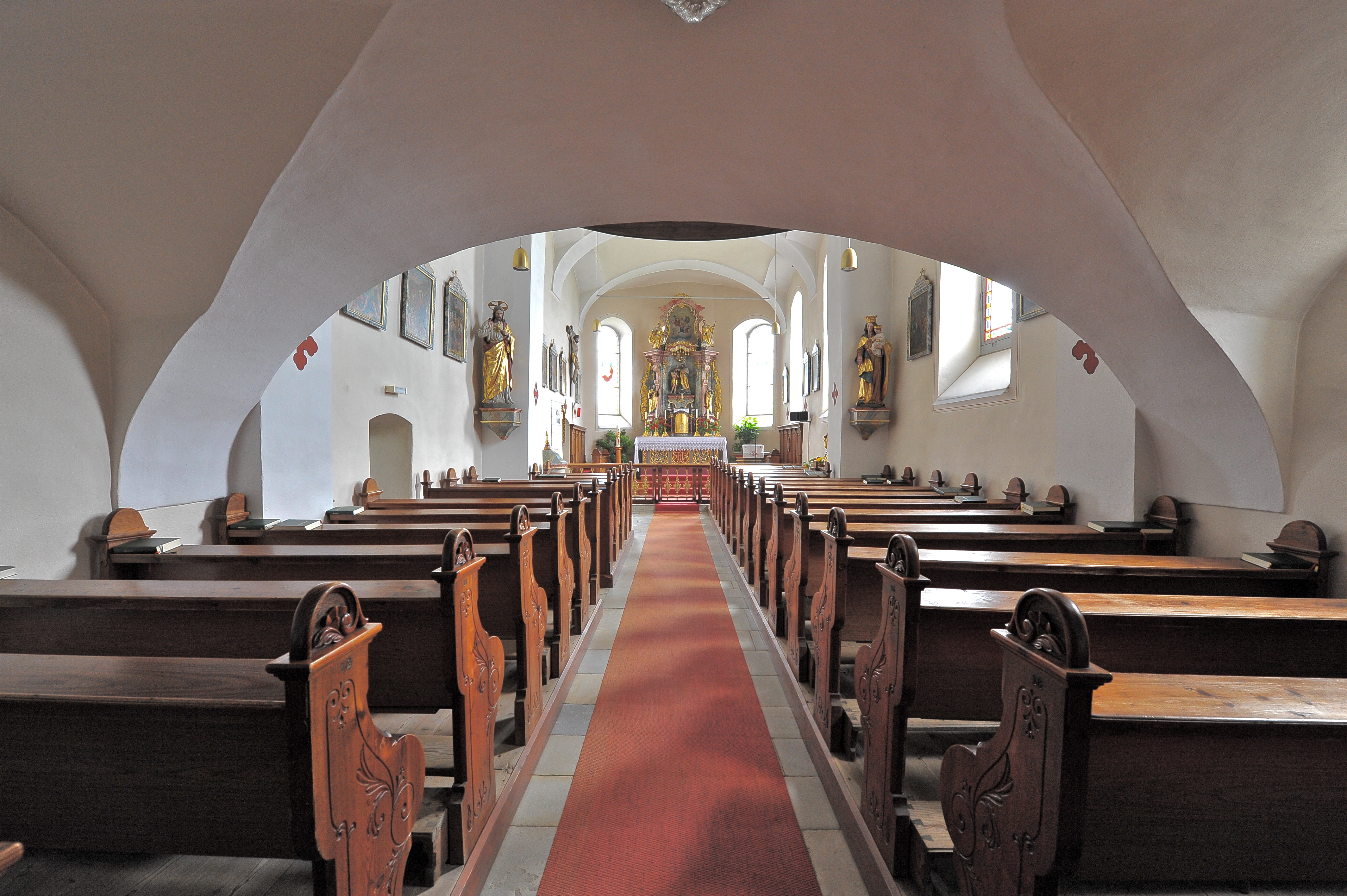 Nave of the parish church Saint John the Baptist at Forst #38, municipality Wolfsberg, district Wolfsberg, Carinthia / Austria / EU